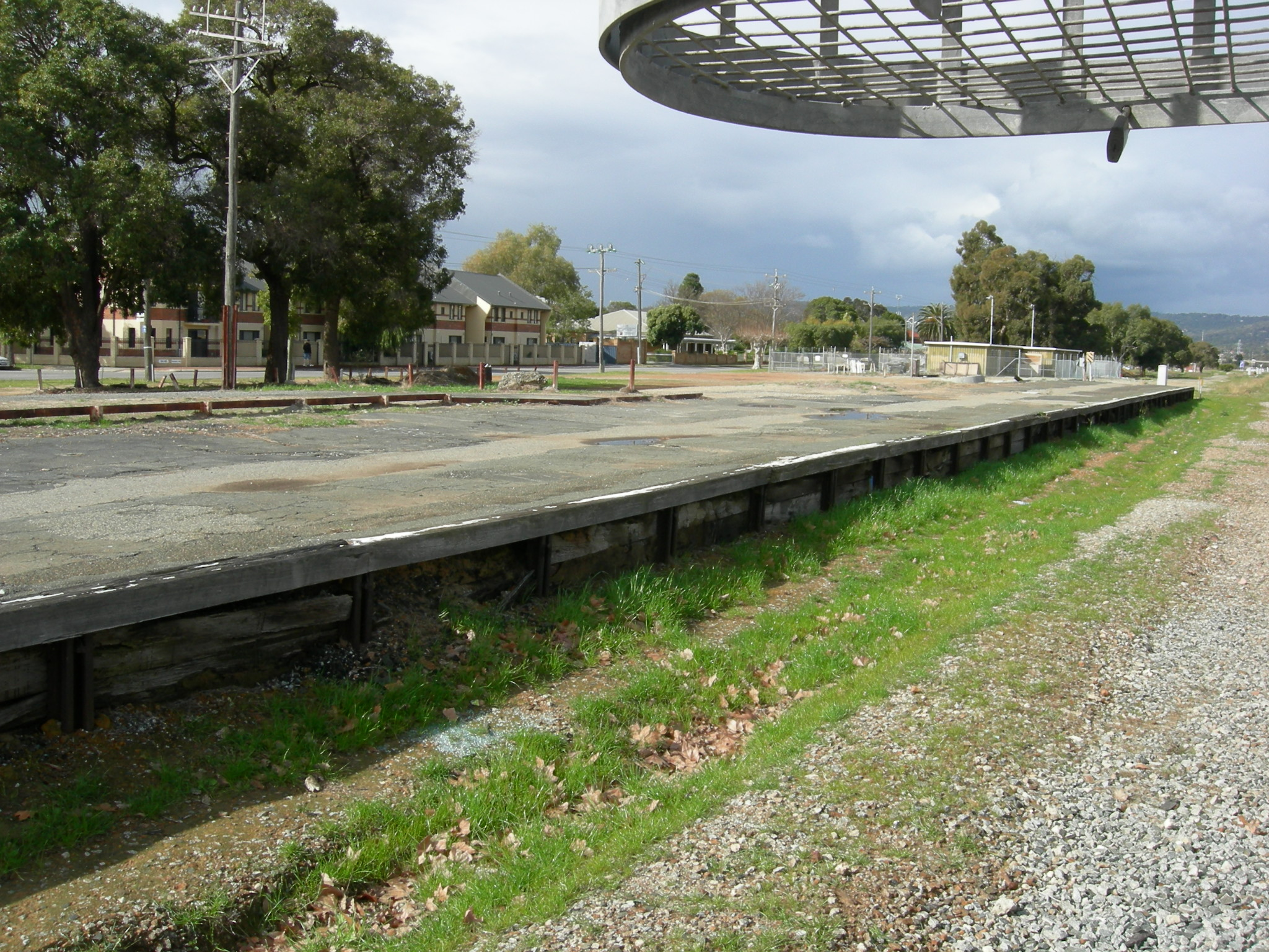 Former Midland Junction railway station platform in Midland, Western Australia - since fenced